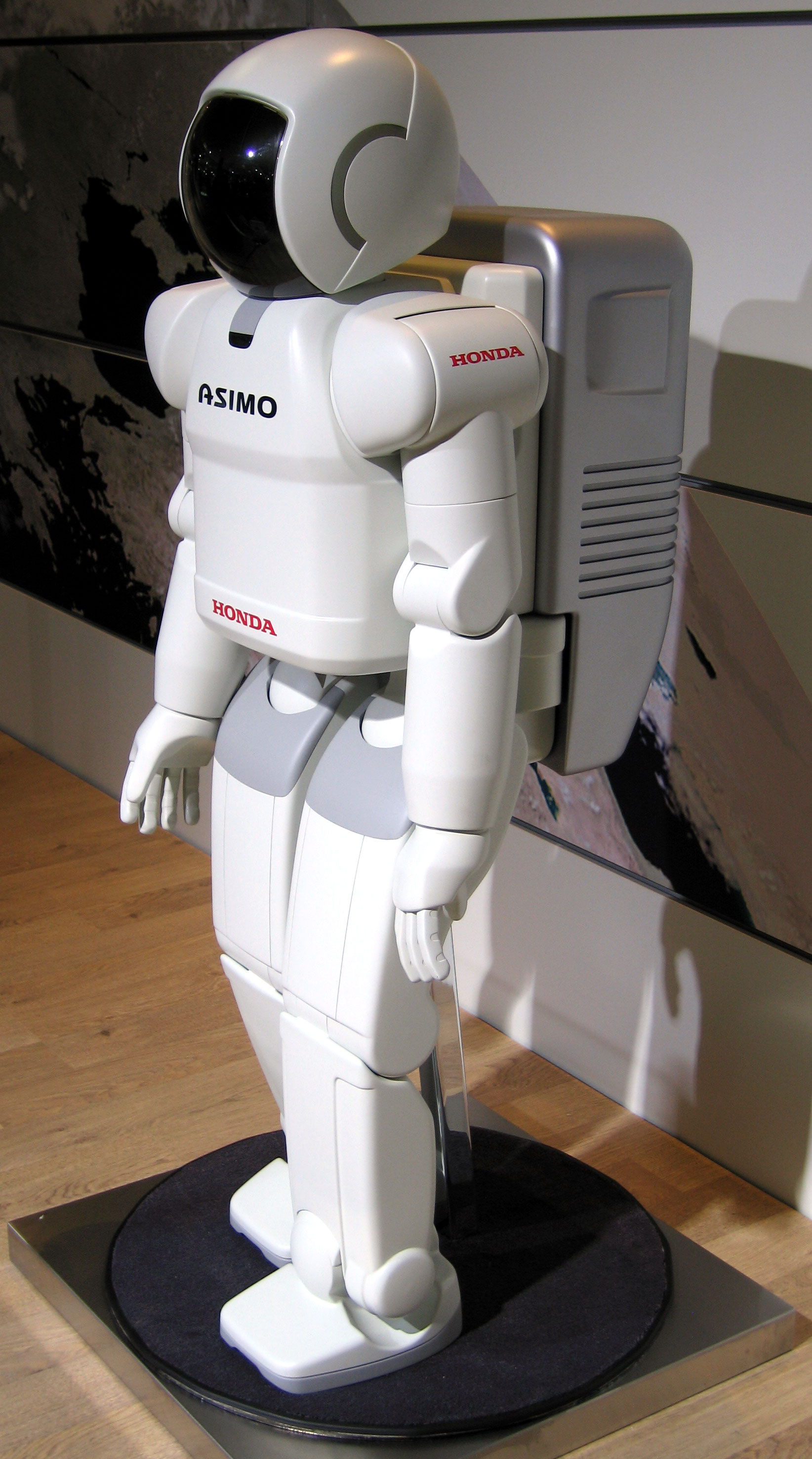 Honda ASIMO at the IAA 2007